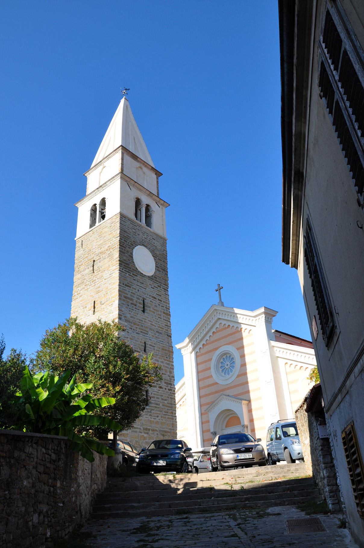 Saint Maurus church, Izola, Slovenia.